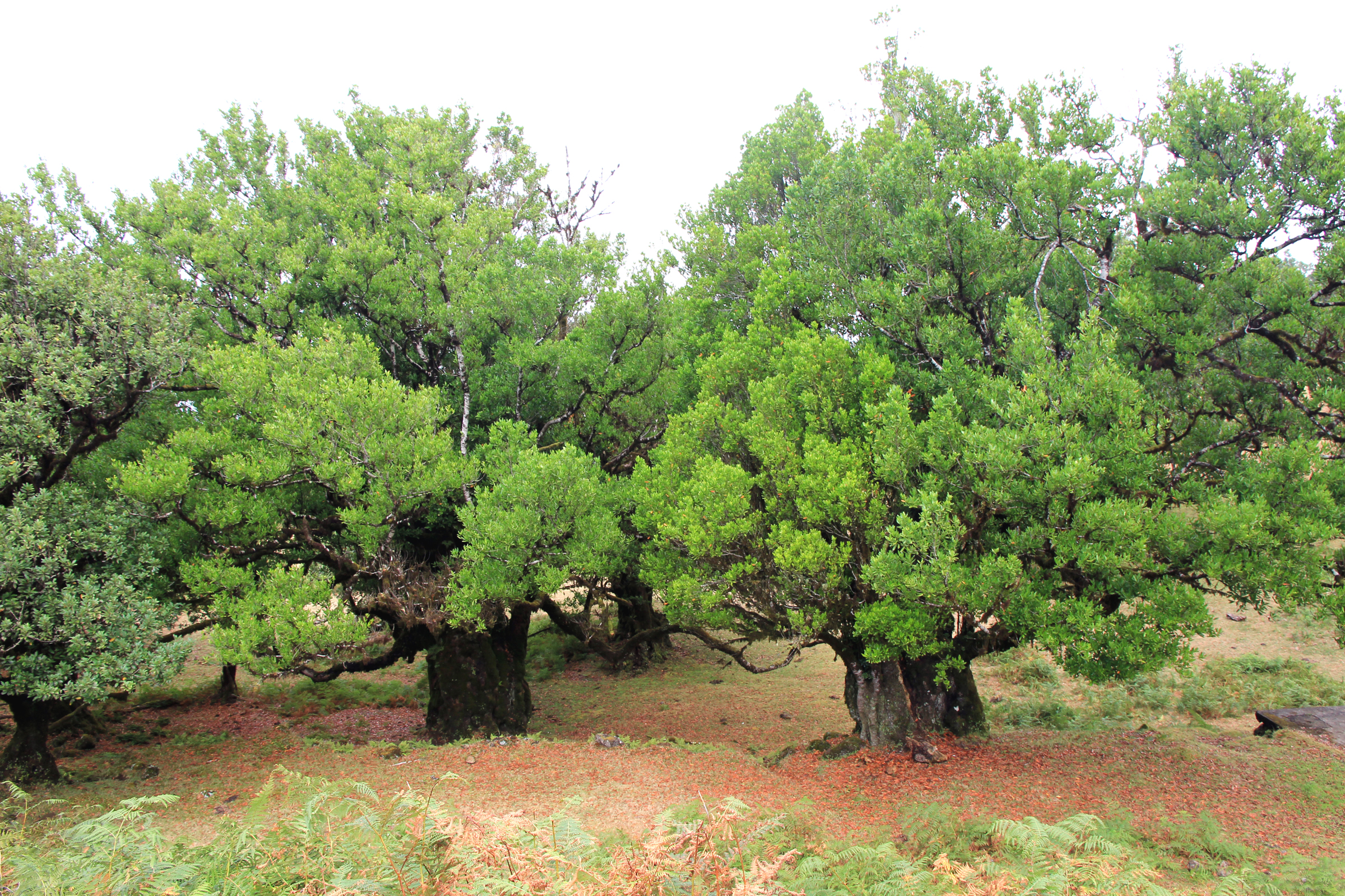 Very old laurel trees in place Fanal in the central Madeira